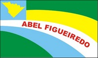 Flag of the city of Abel Figueiredo, Pará, Brazil.